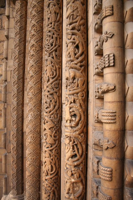 Detail of some of the 12th-century engaged columns flanking the west door of Lincoln Cathedral. Geometric motifs, chevrons, lozenges, naturalistic, beak-head and flowing foliage.